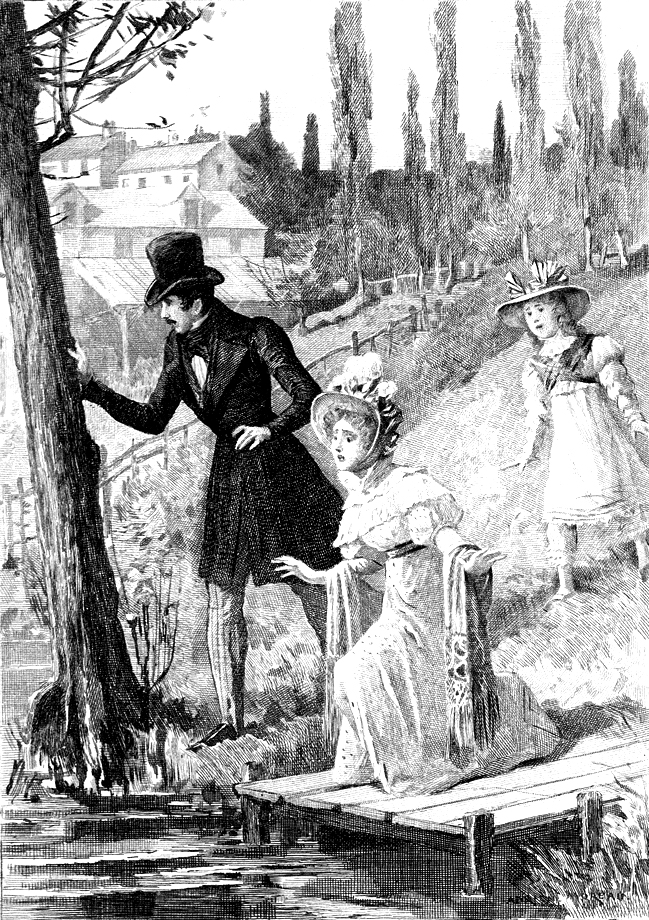 Illustration of Honoré de Balzac's The Woman of Thirty (1831): At the Bièvre.